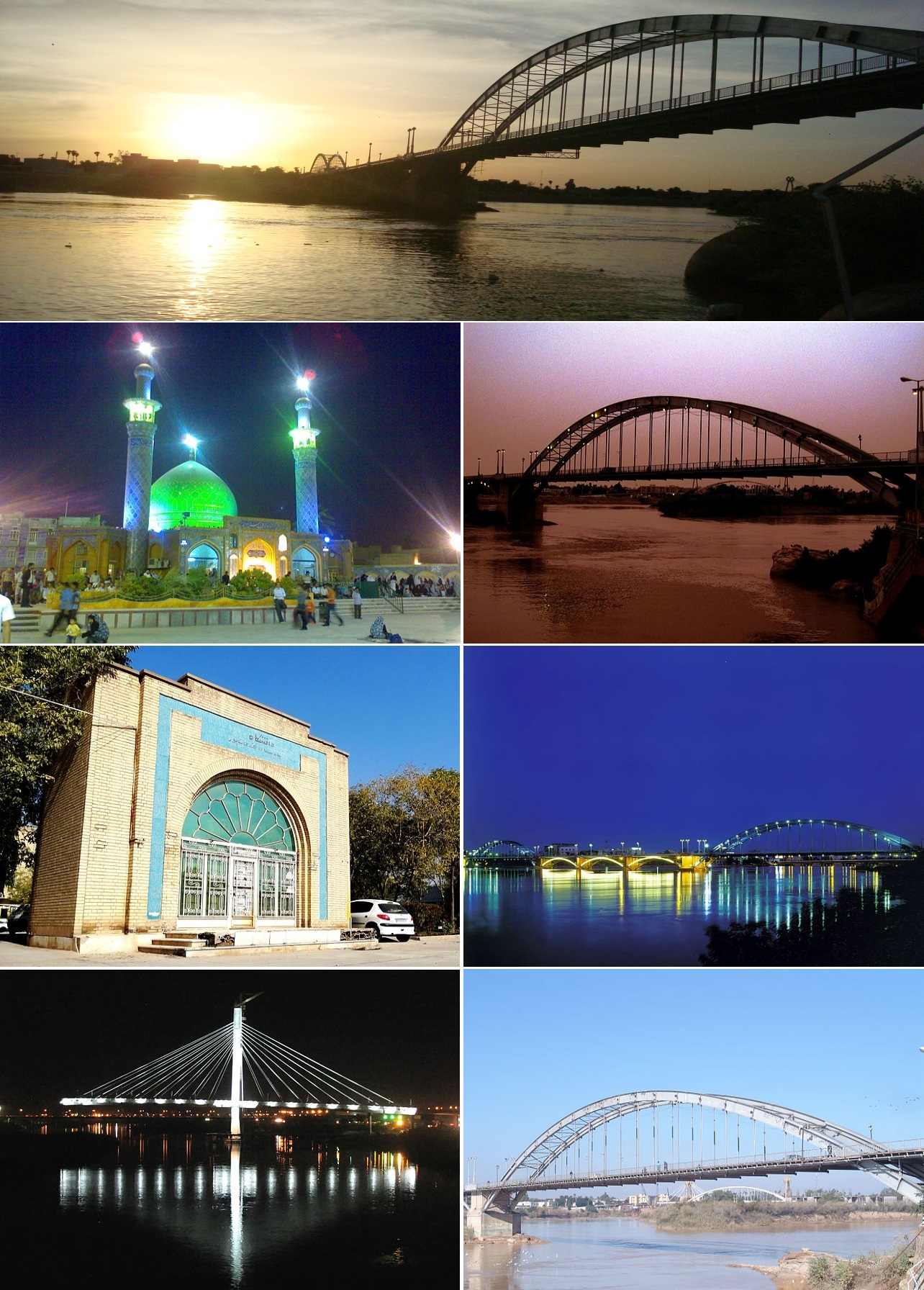 Reused freely available images from Commons to create a montage for Ahvaz Clockwise from top: File:Ahvaz White Bridge.JPG File:Iran - Khuzestan - Ahvaz - White Bridge & Karoon River.jpg File:Ahvaz Bridge.jpg File:Pol Sefid 6.JPG File:Pol Hashtom Ahvaz.JPG File:JOUNDOSHAPOUR.jpg File:Ali mahziar.JPG